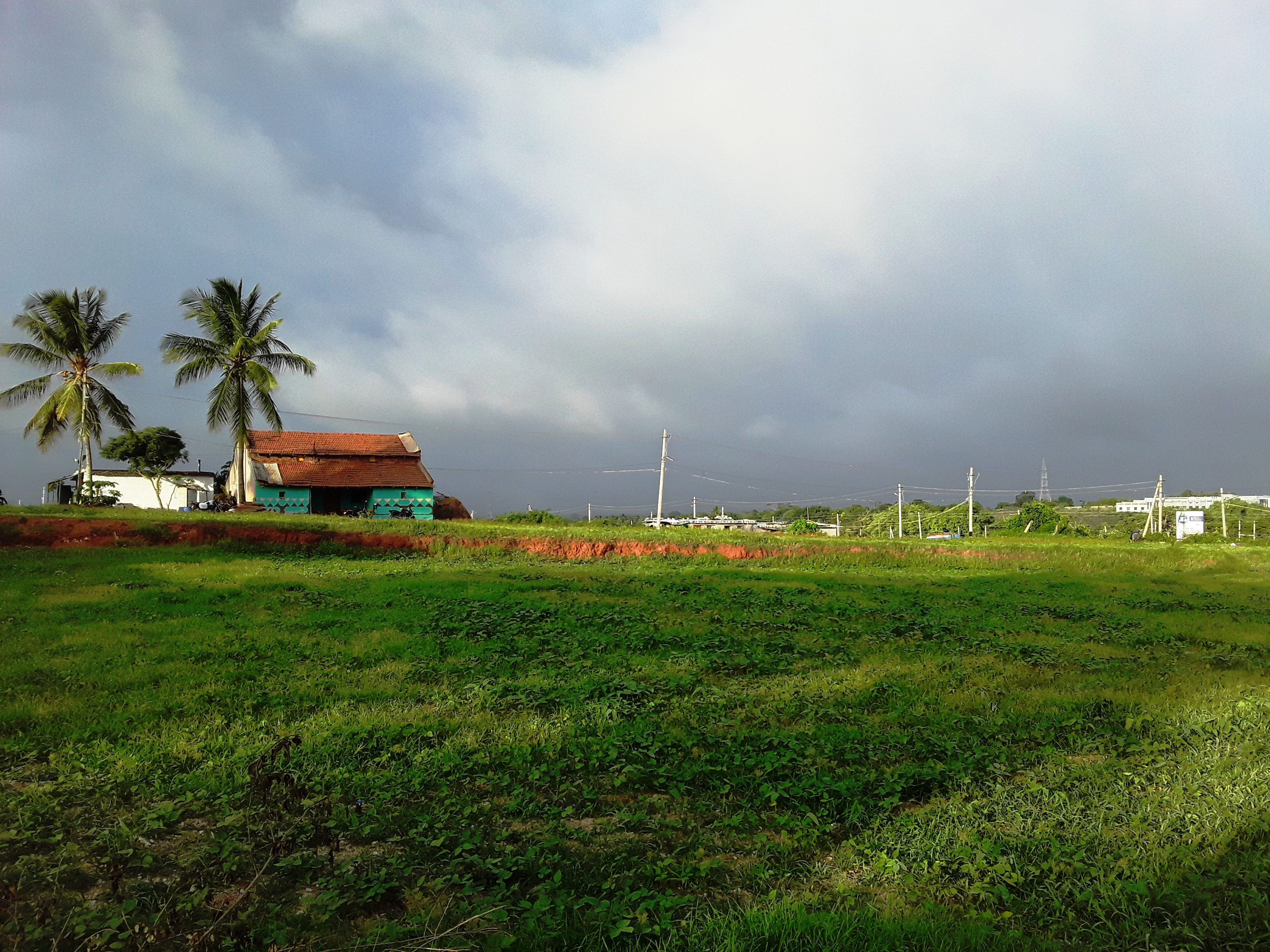 Karnataka State, India.